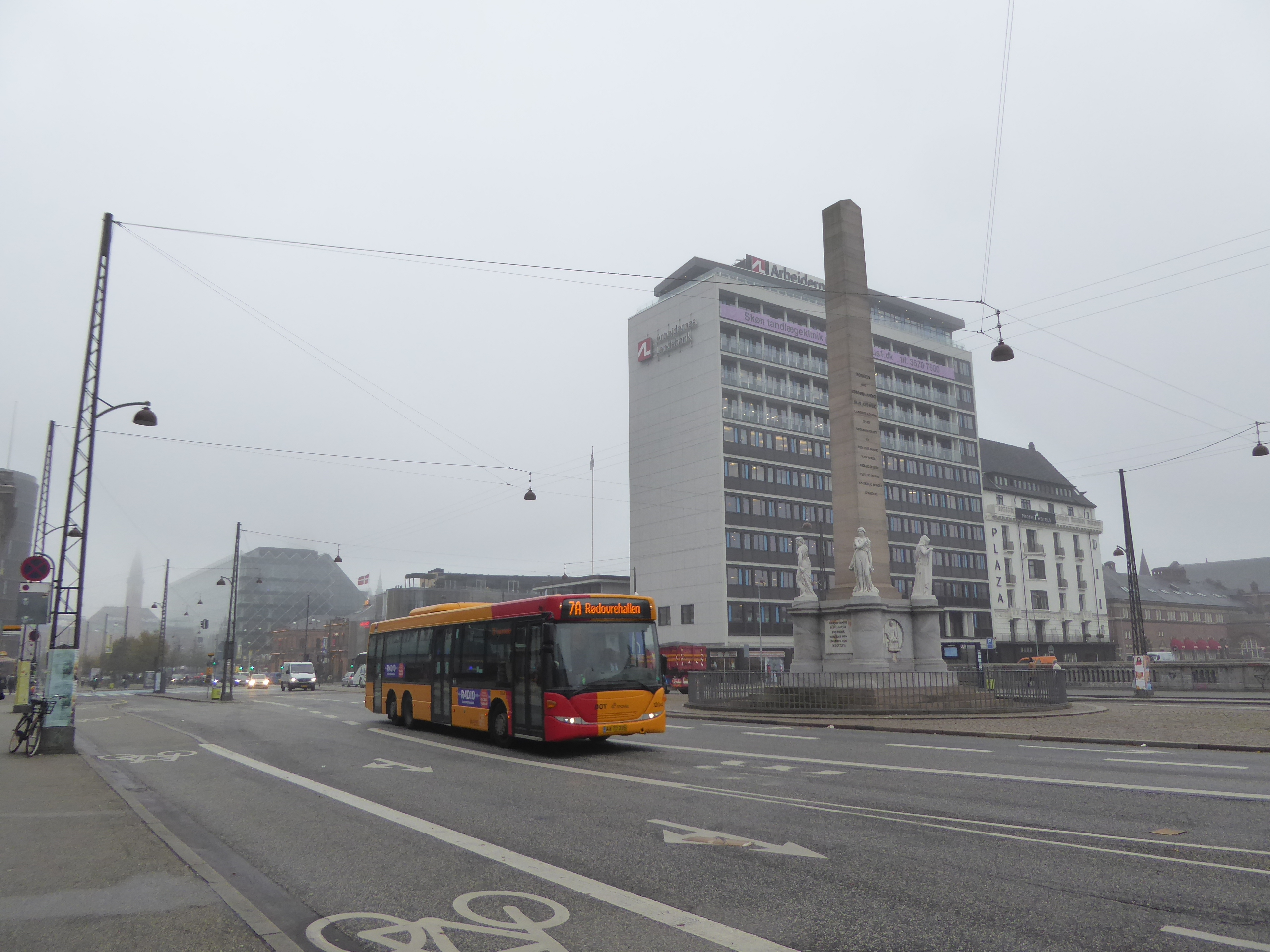 Movia bus line 7A on Vesterbrogade at Frihedsstøtten (the Liberty Memorial) in Vesterbro in Copenhagen. It was a bit foggy that day.